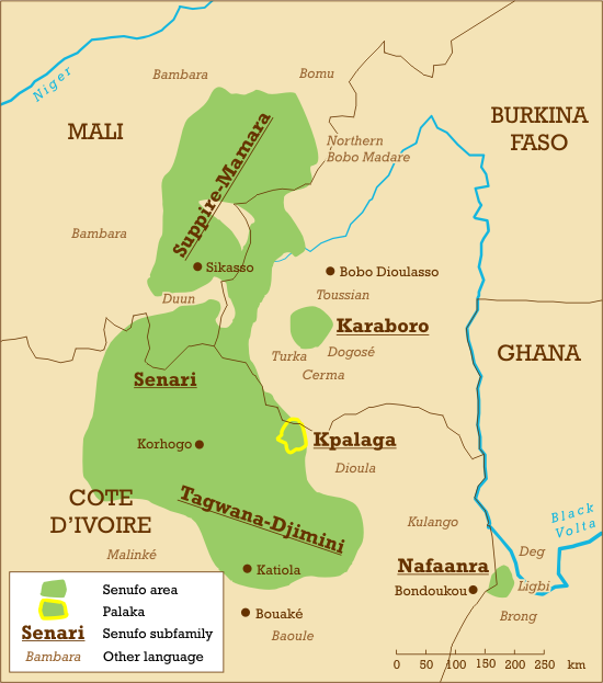 Map showing where the Palaka language is spoken.